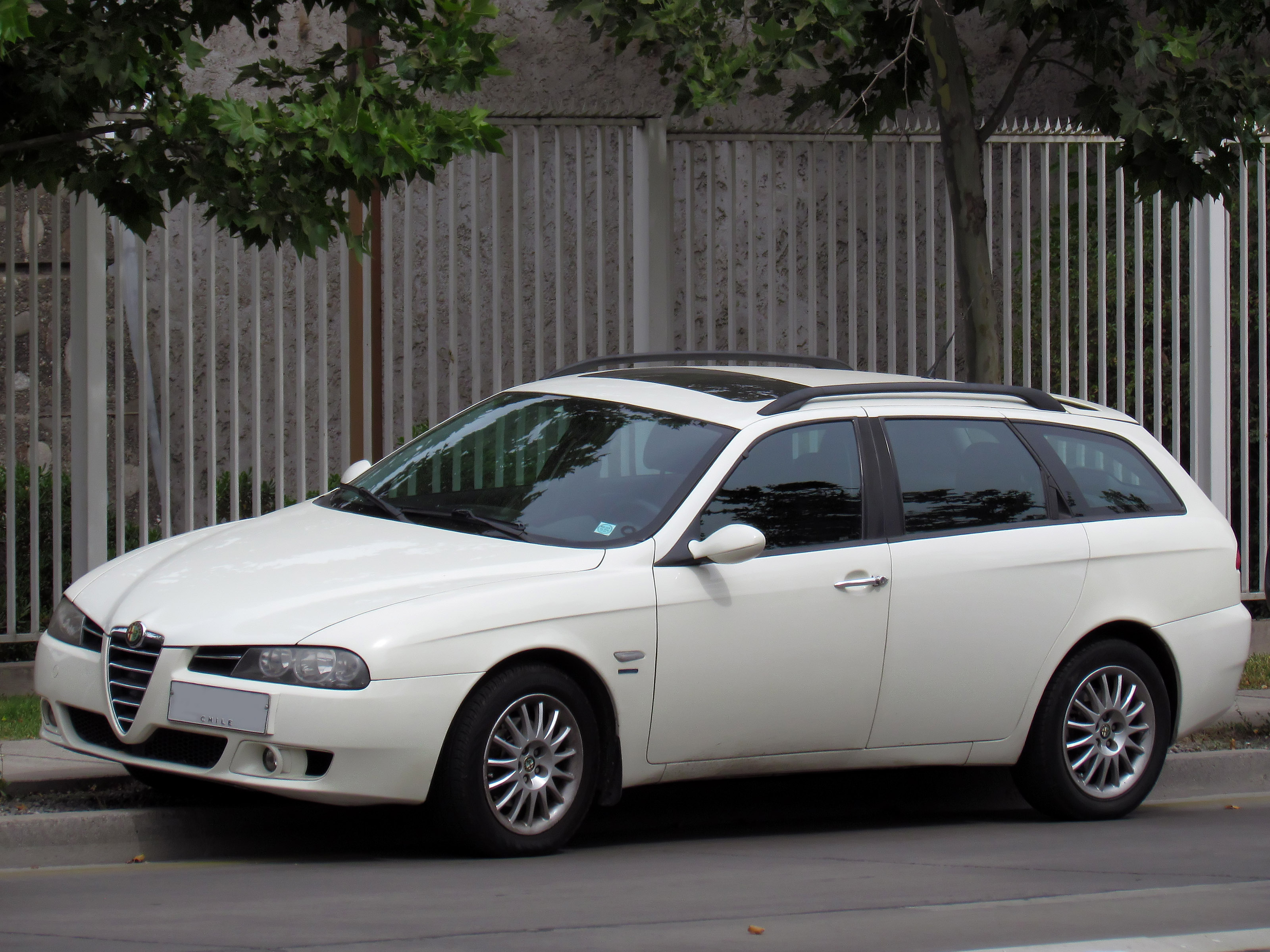 Alfa Romeo 156 2.0 Selespeed Sportwagon 2006